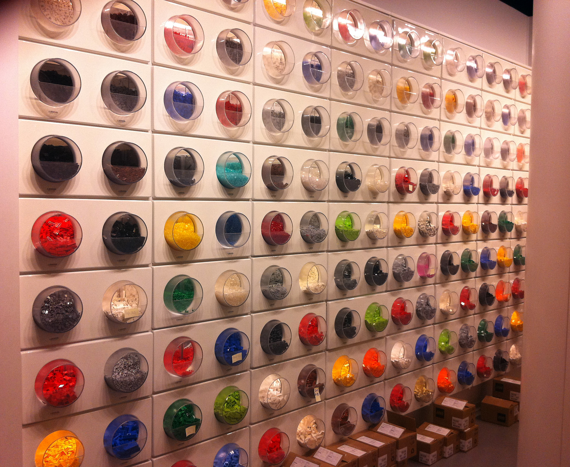 LEGO Store - Sacramento, CA - Arden Fair Mall